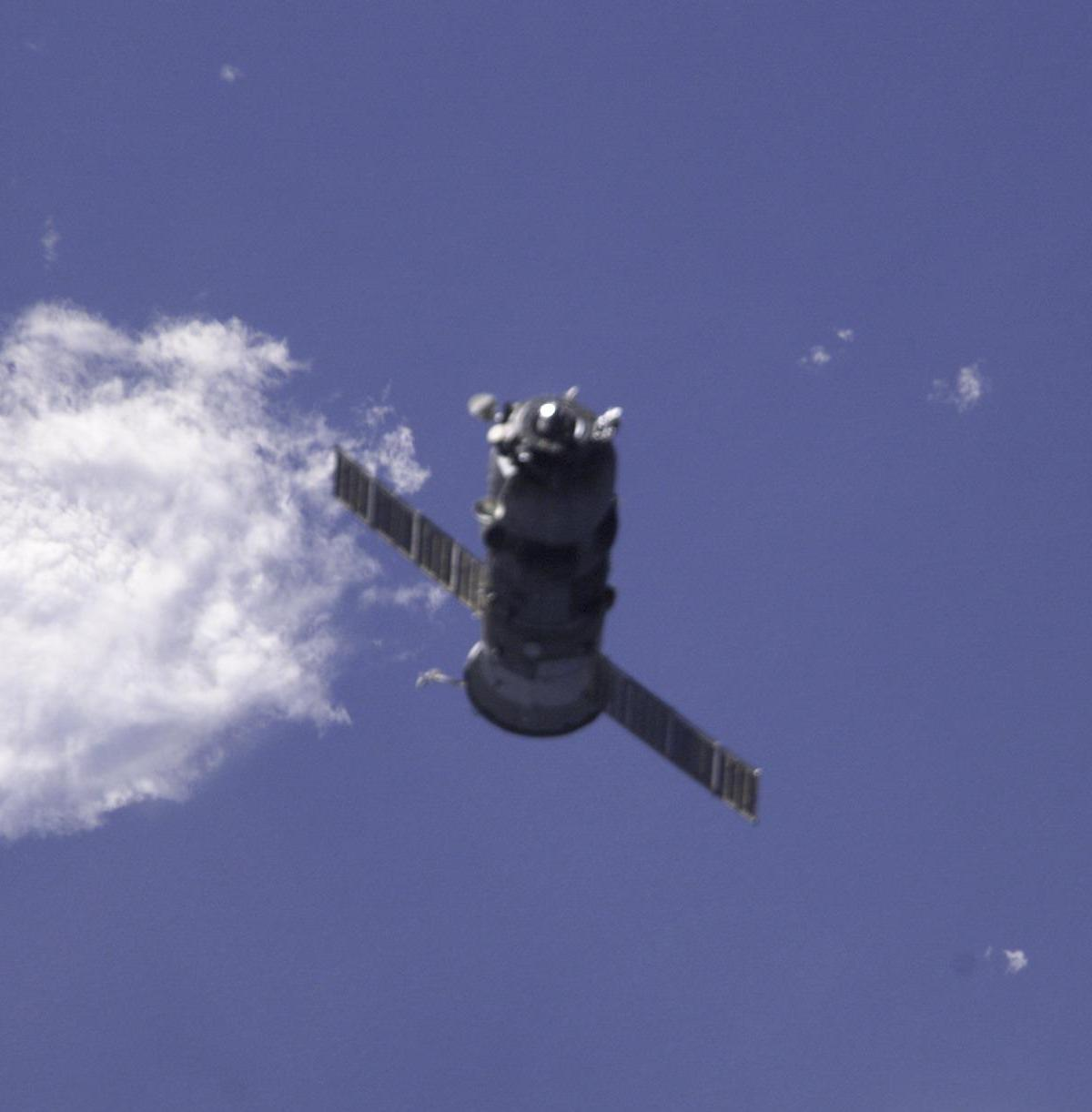 Cropped image of Progress M1-8 seen from the International Space Station during undocking.